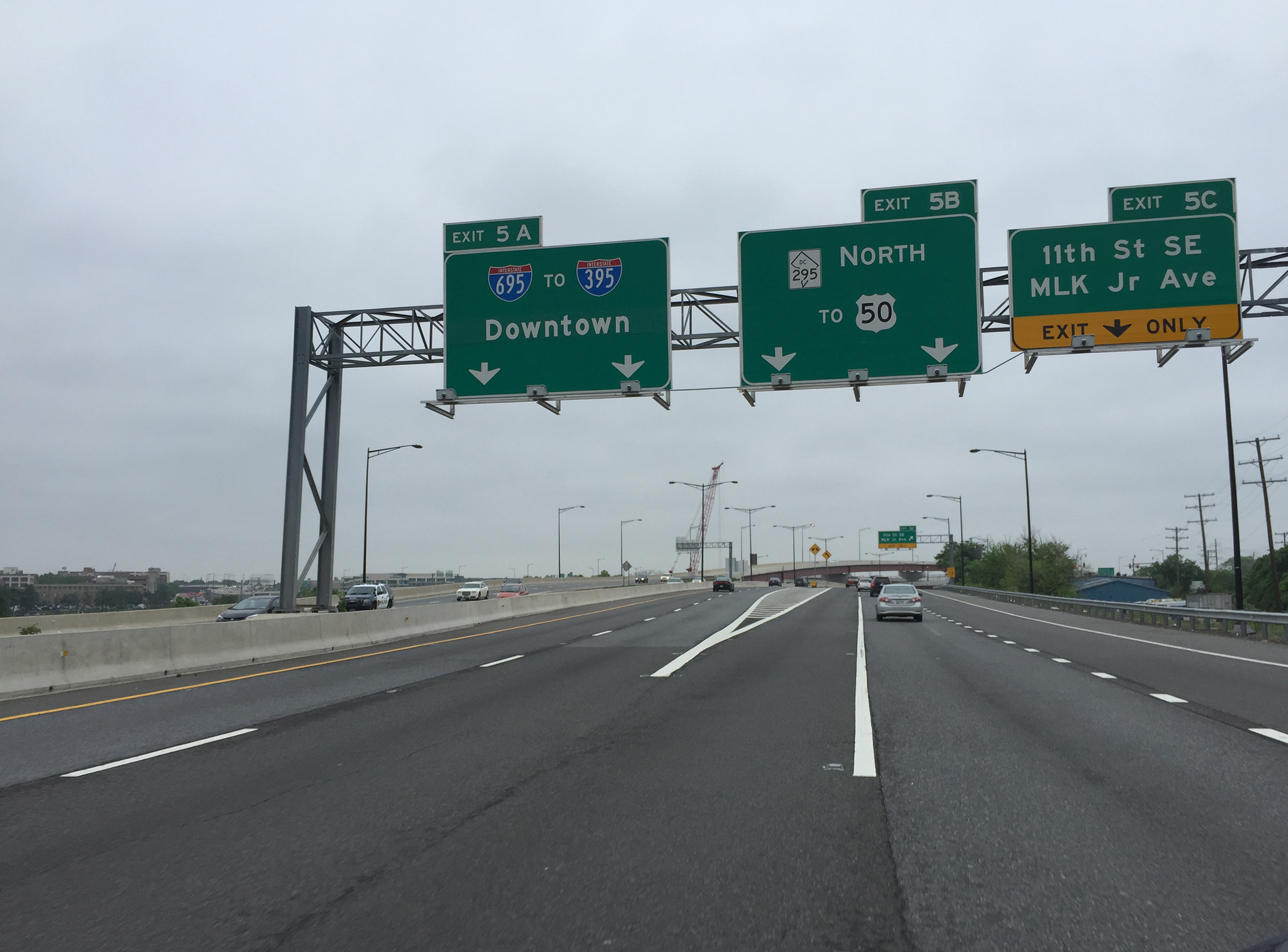 View north along Interstate 295 (Anacostia Freeway) at Exit 5A (Interstate 695 to Interstate 395, Downtown) in Washington, D.C.